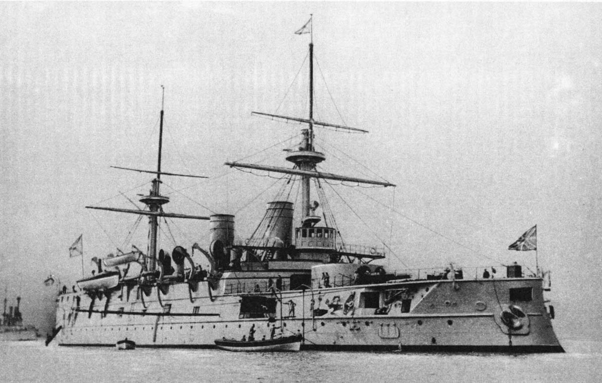 Imperial Russian battleship Imperator Nikolai I.